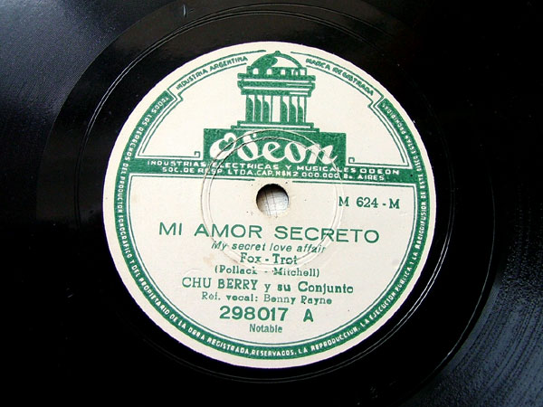 Chu Berry Single